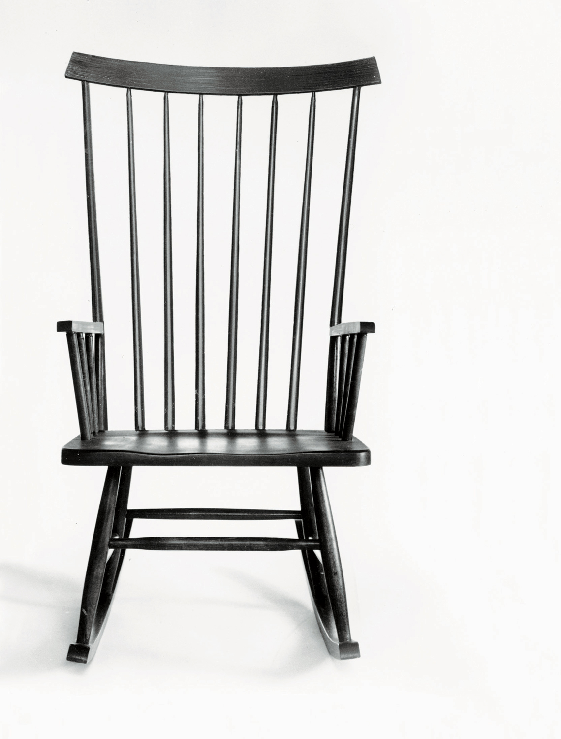 Classic rocking chair design by Mel Smilow in 1960. Other information I am working with the smilow family to create this page